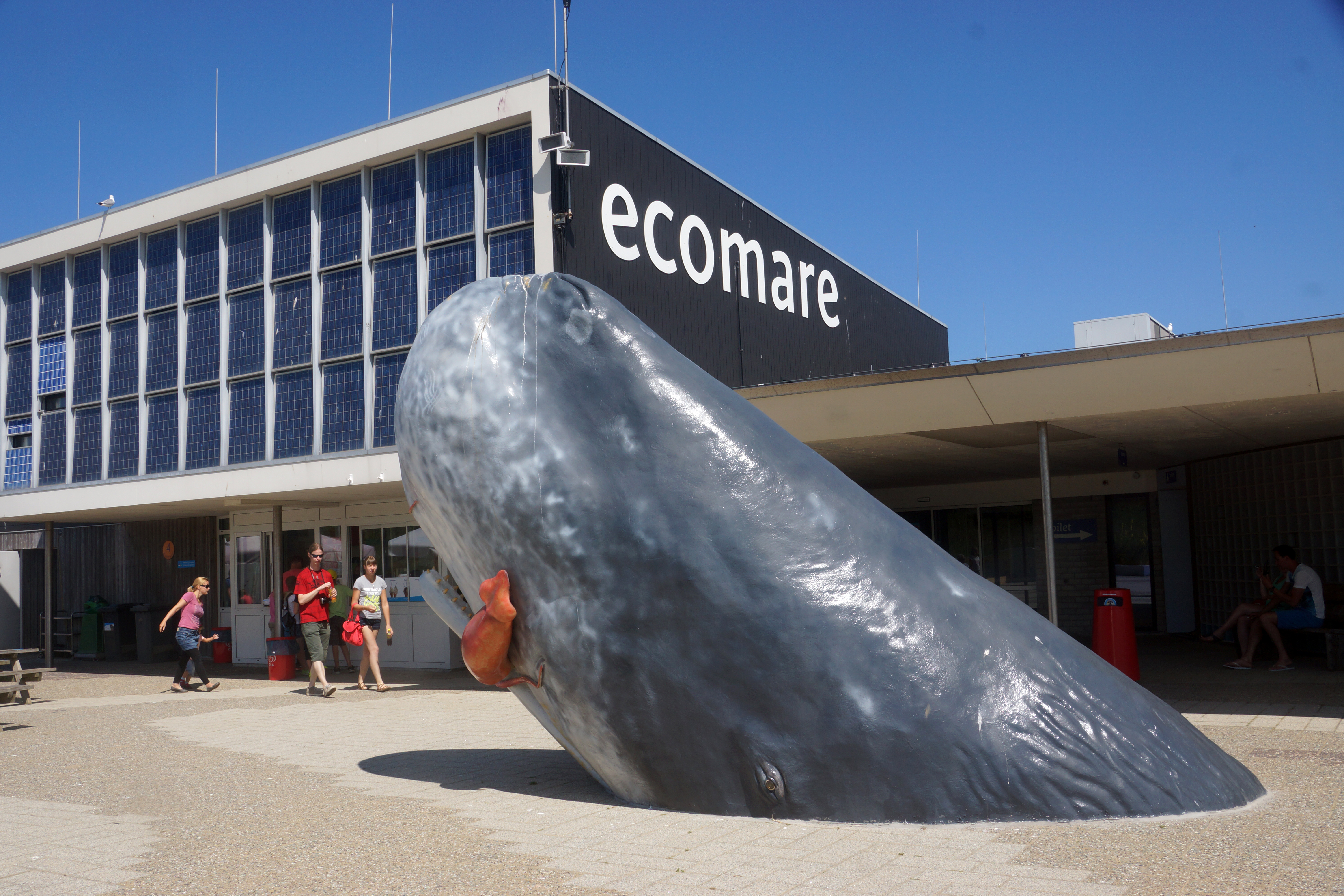 a replica / model of a sperm whale in the outdoor area of Ecomare with visitors